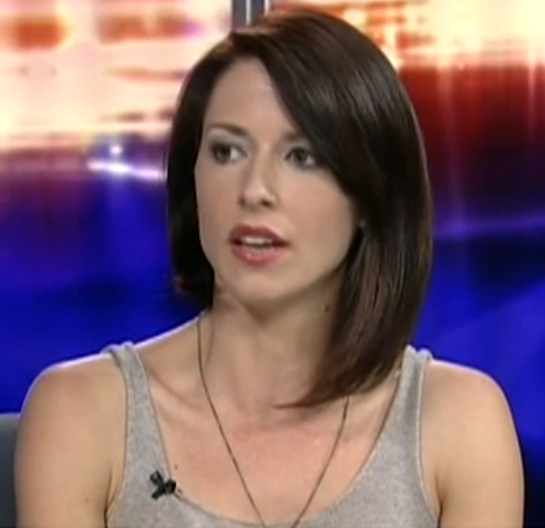 Cropped from the video shown, Abby Martin as a simple correspondent for RT before she got her own show, "Breaking the Set".